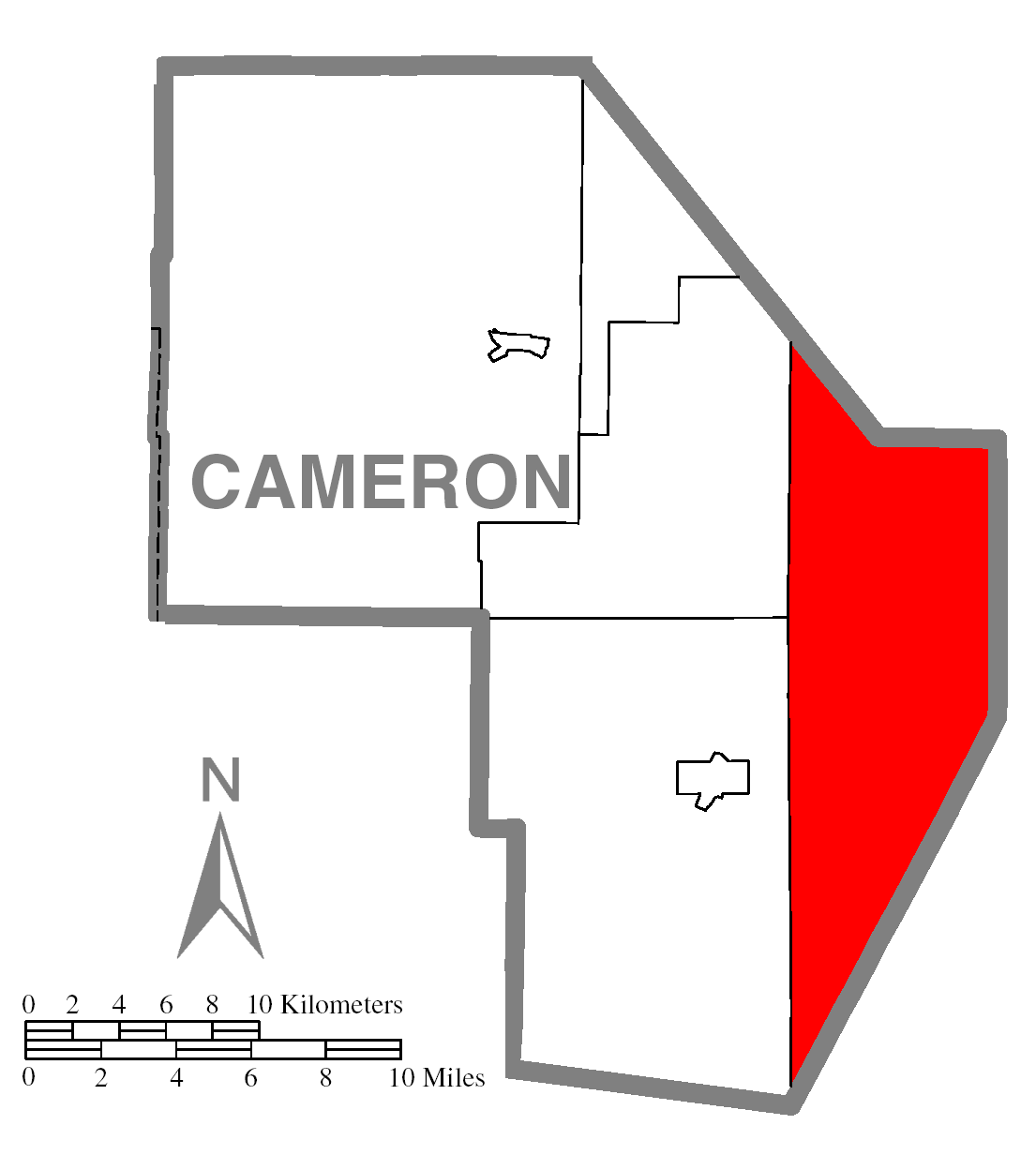 A map of Cameron County showing Grove Township, Pennsylvania (alternate) highlighted on the map.